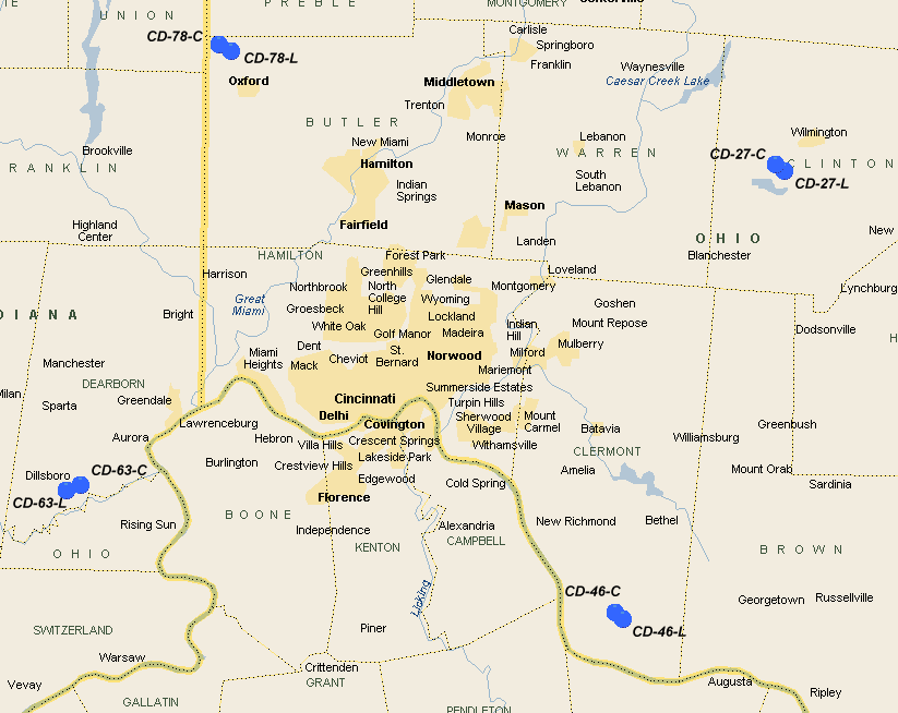 Cincinnati-Dayton Defense Area Nike Missile Sites